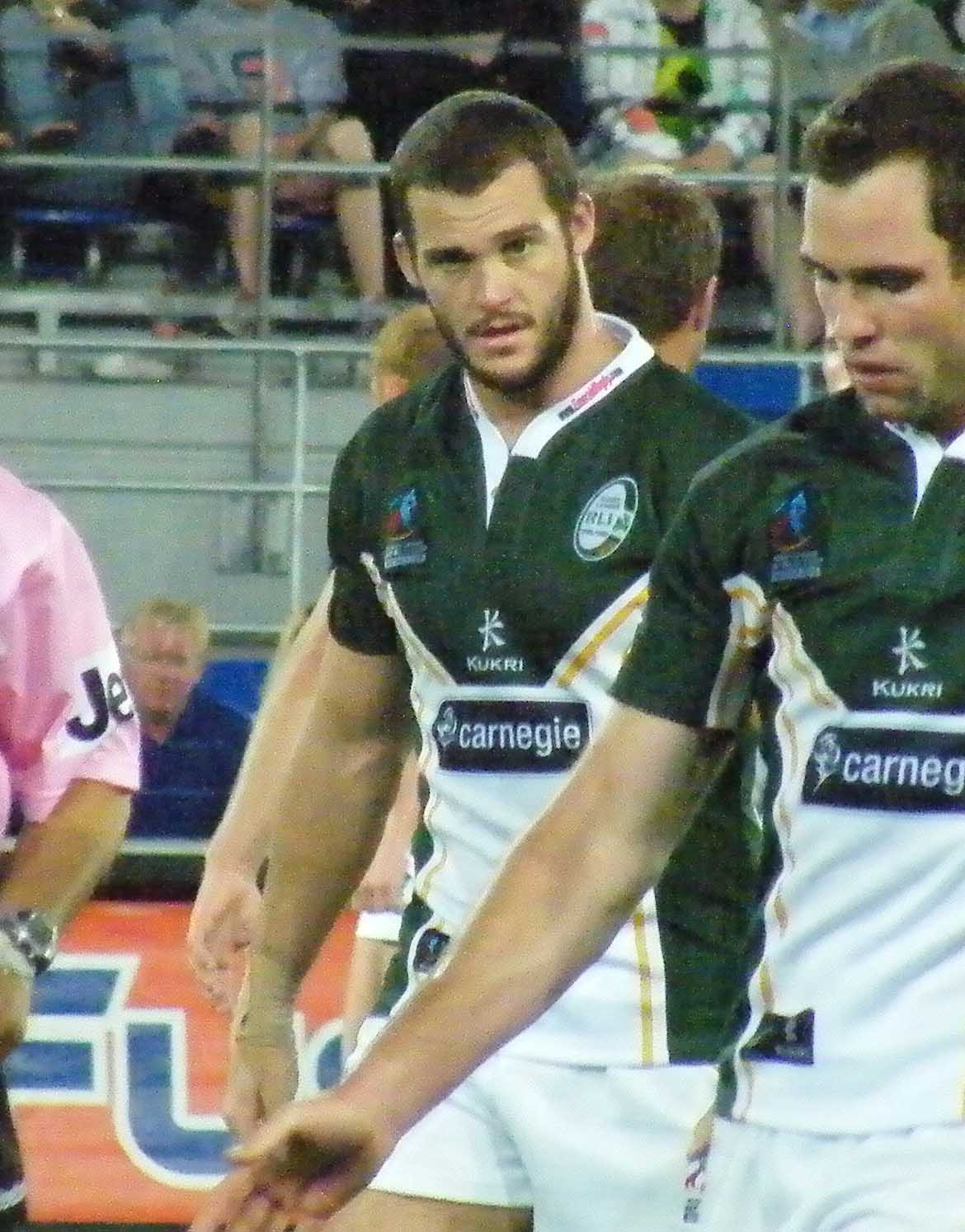 RLWC - Fiji v Ireland, Gold Coast 2008. Ireland player Simon Finegan.